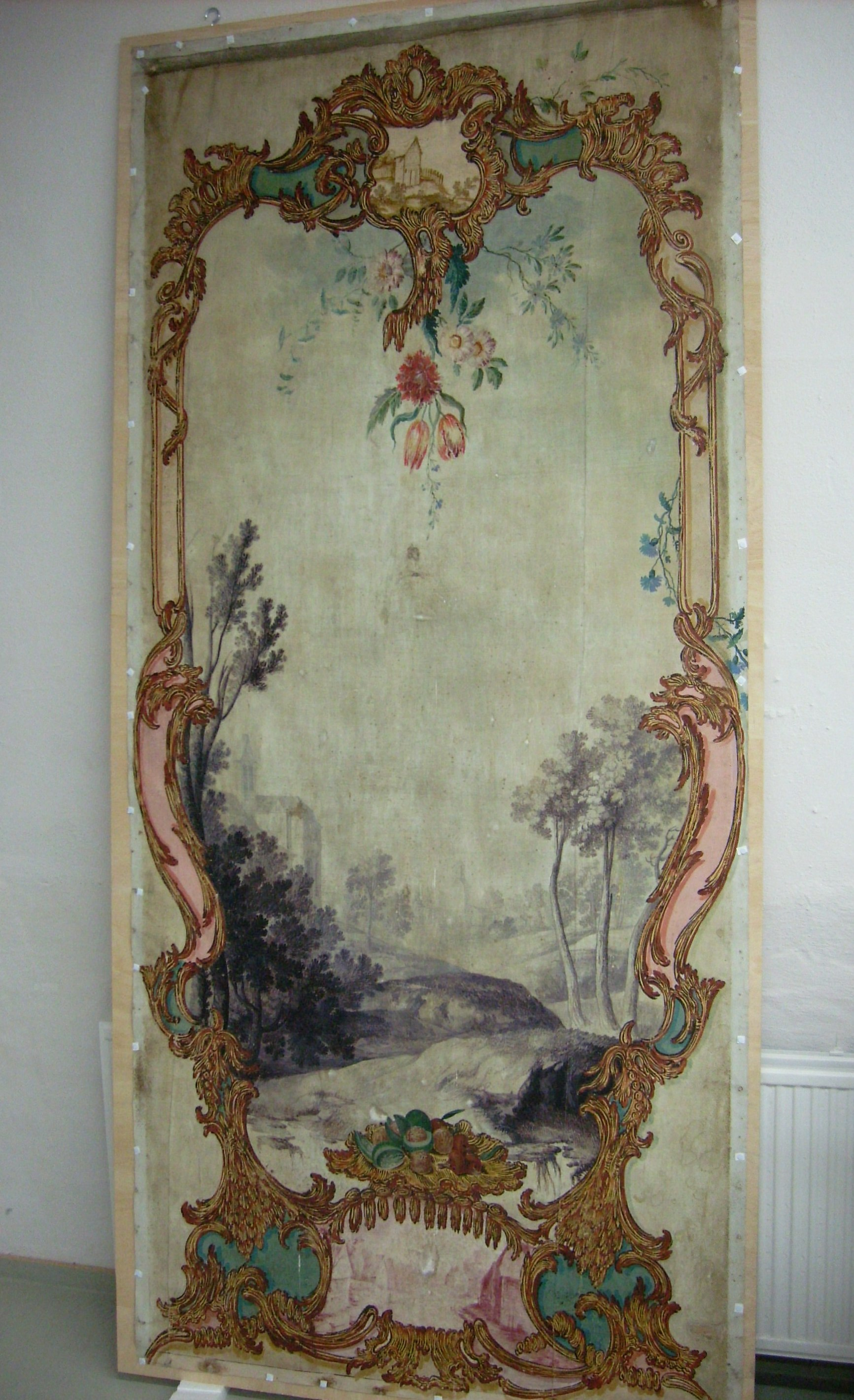 Nearly restored wallpaper in the workshop at Ermlitz estate (Schkopau, district of Salekreis, Saxony-Anhalt)